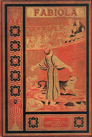 Public Domain, printing 1854, UK; 1893, France.